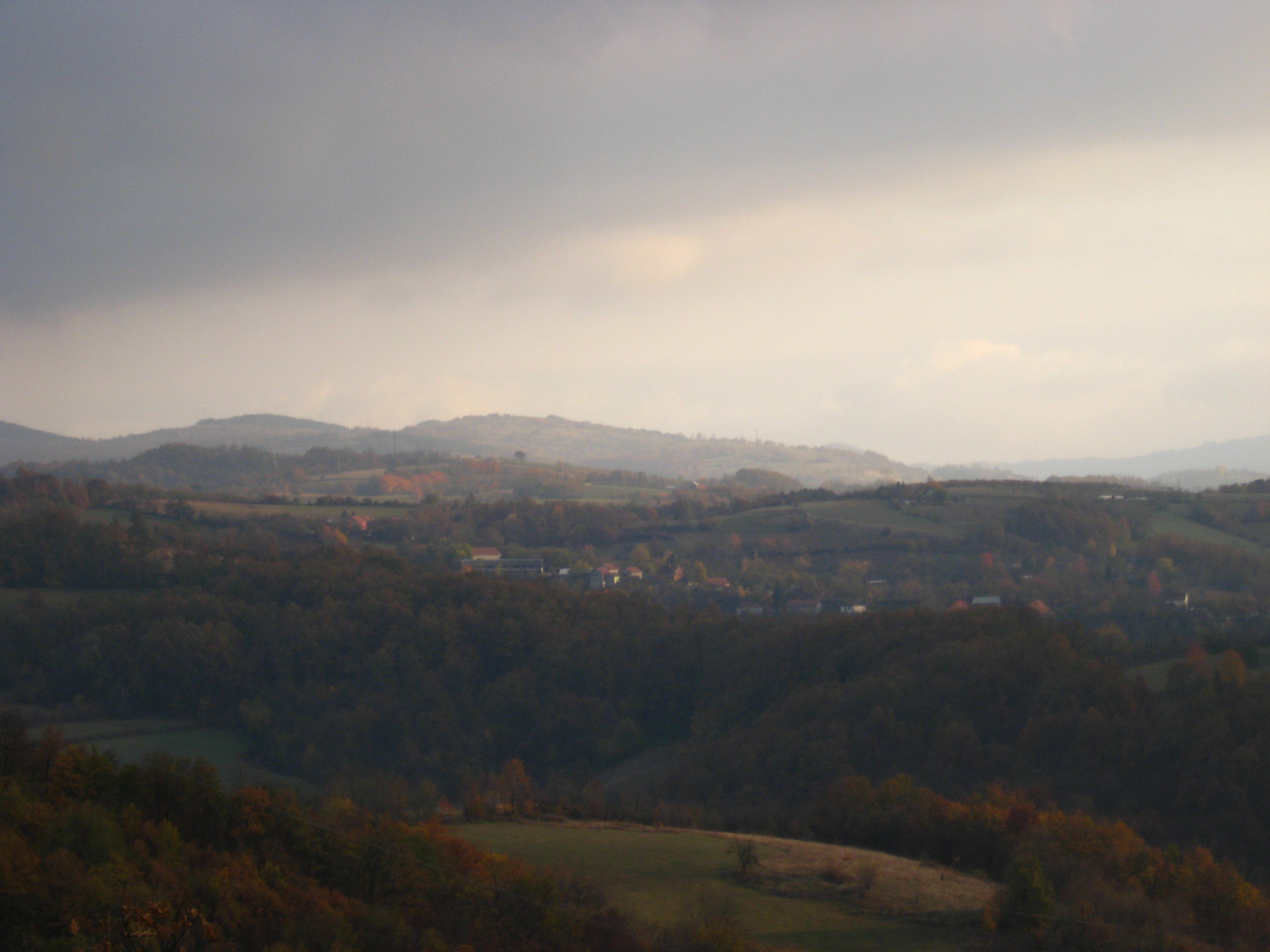 Valjevo mountains - the river Gradac - Western Serbia - Looking towards the village of GornjeLeskovice